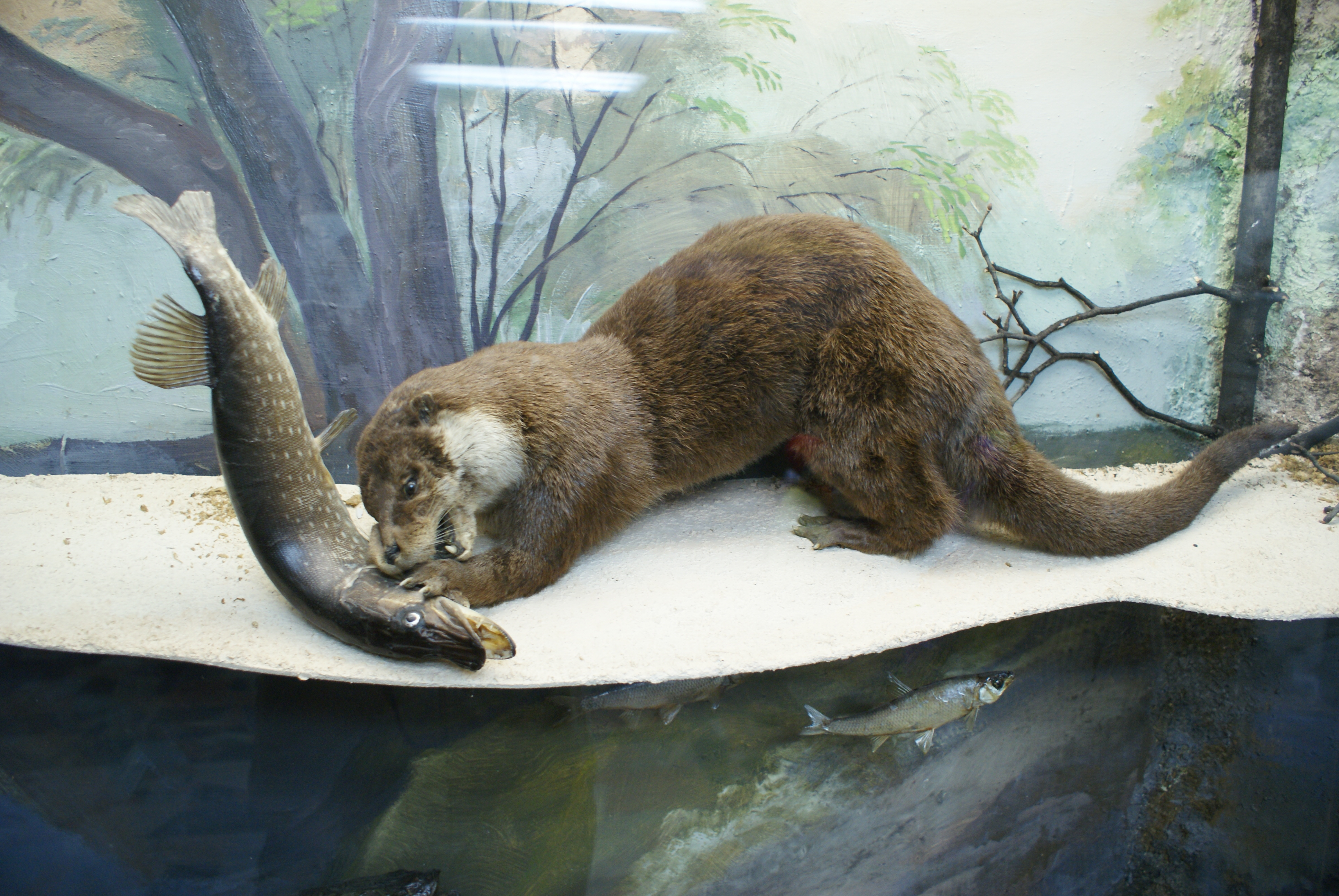 Lutra lutra (stuffed) in Belarusian Nature and Environment Museum